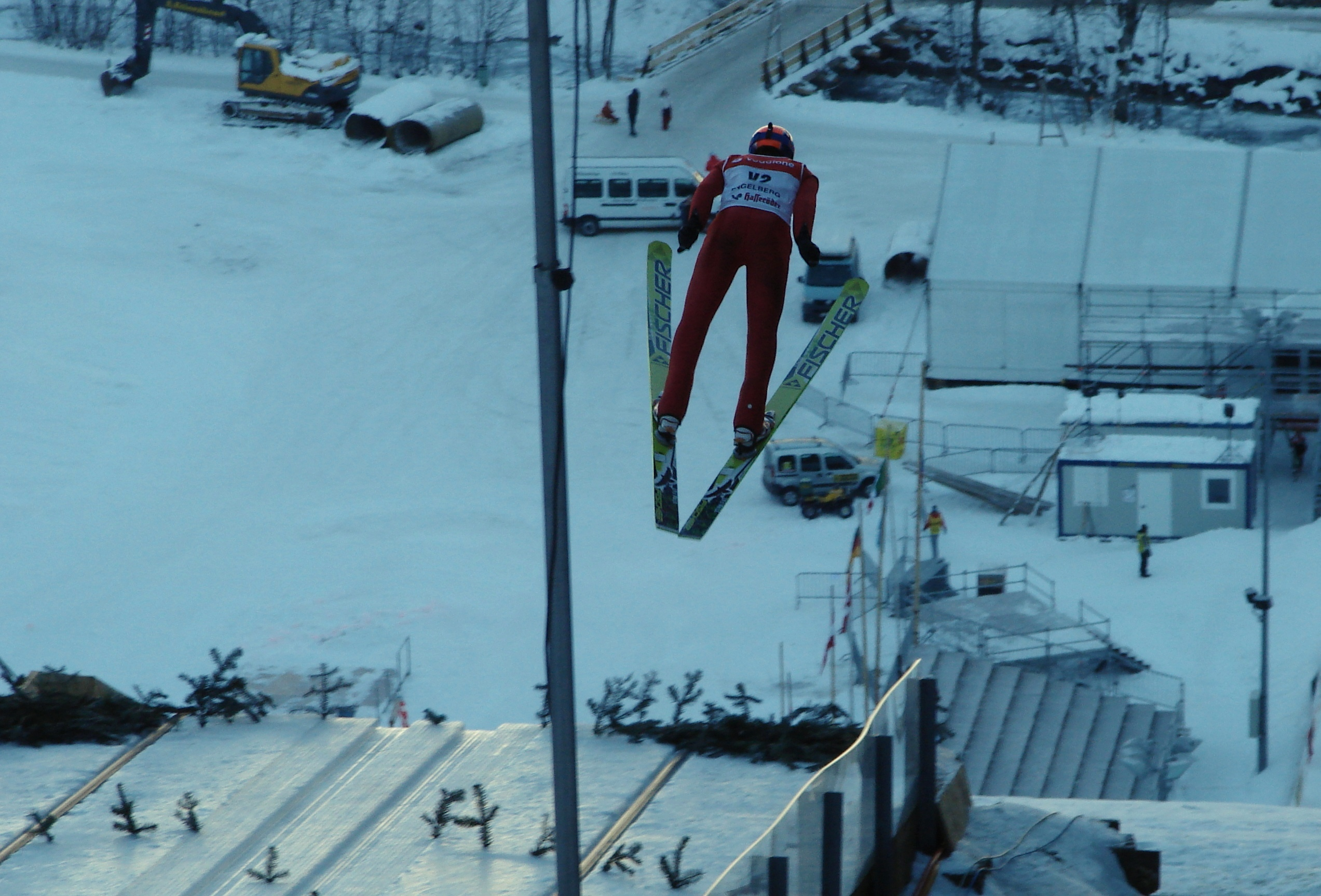 Jumper taking off from the Titlis Ski Jump at Engelberg, Switzerland. Picture taken at the training for the FIS Continental Ski Jump Contest